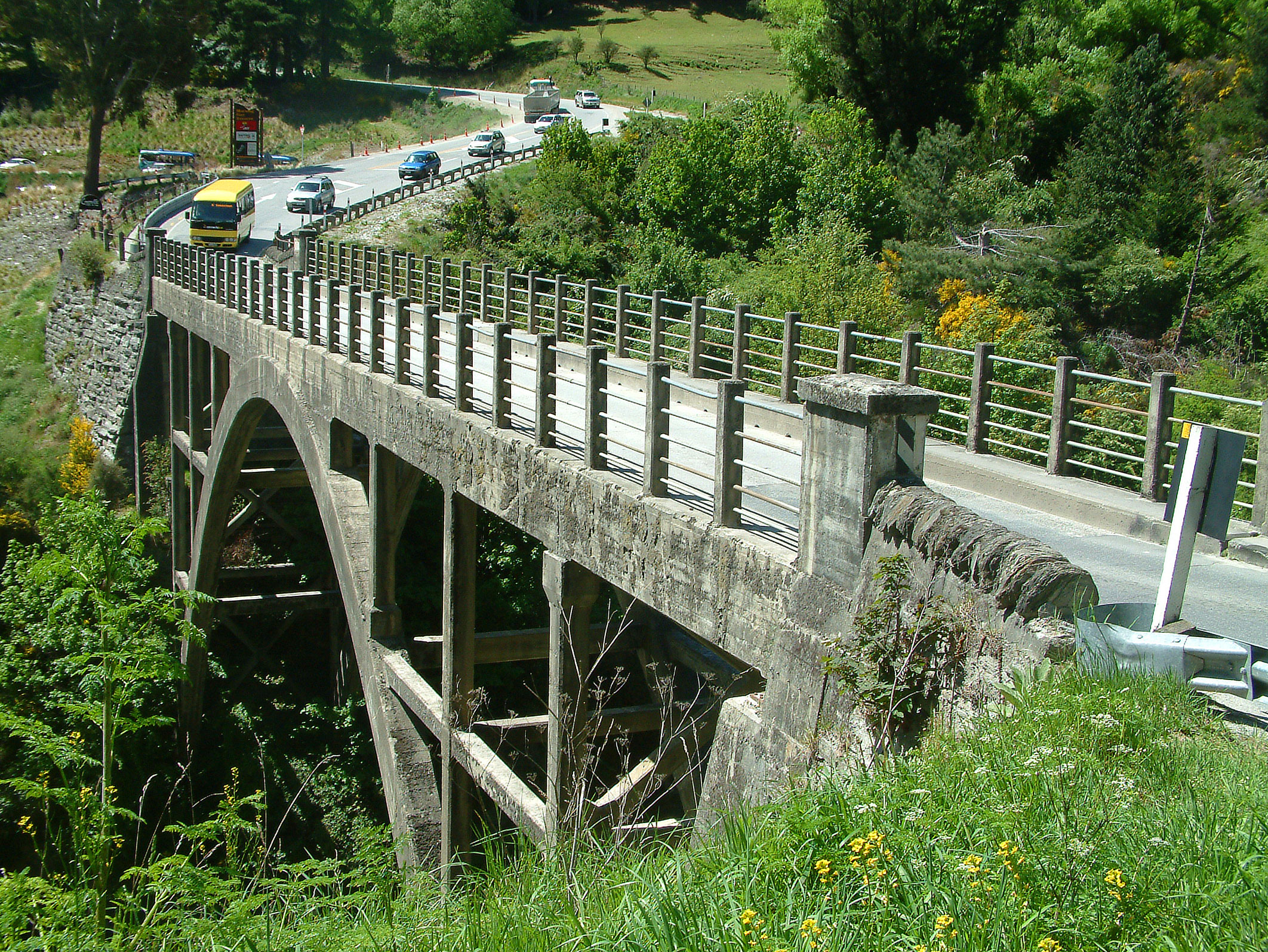 This alternating one-way bridge passes over the Shotover River near Queenstown